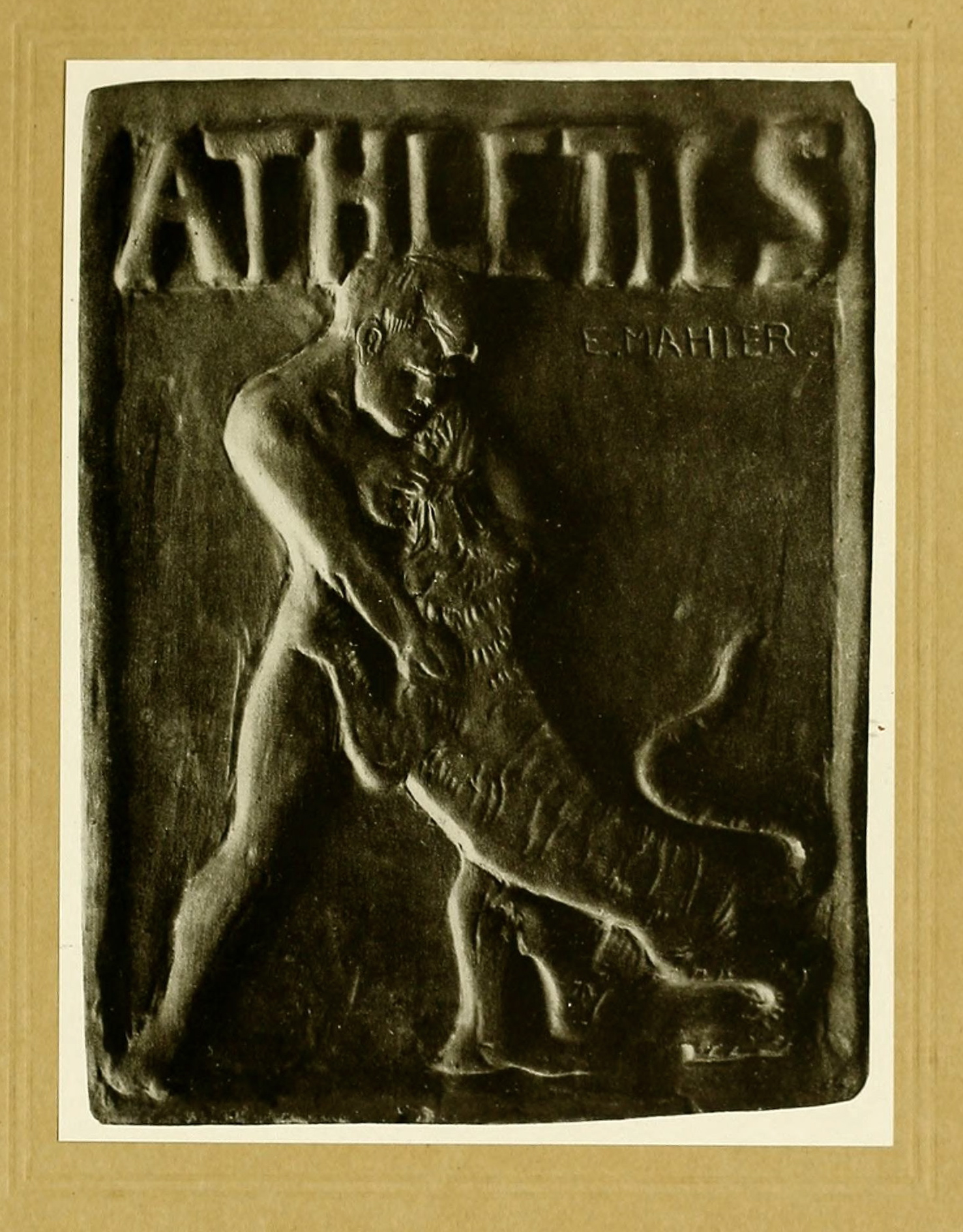 "Athletics" by Edith Mahier. Illustration in "Jambalaya" Tulane University yearbook, New Orleans, 1916.